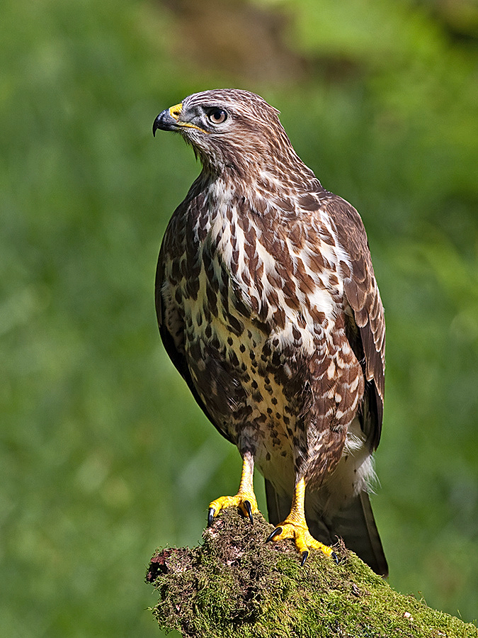 A Common Buzzard in Scotland.